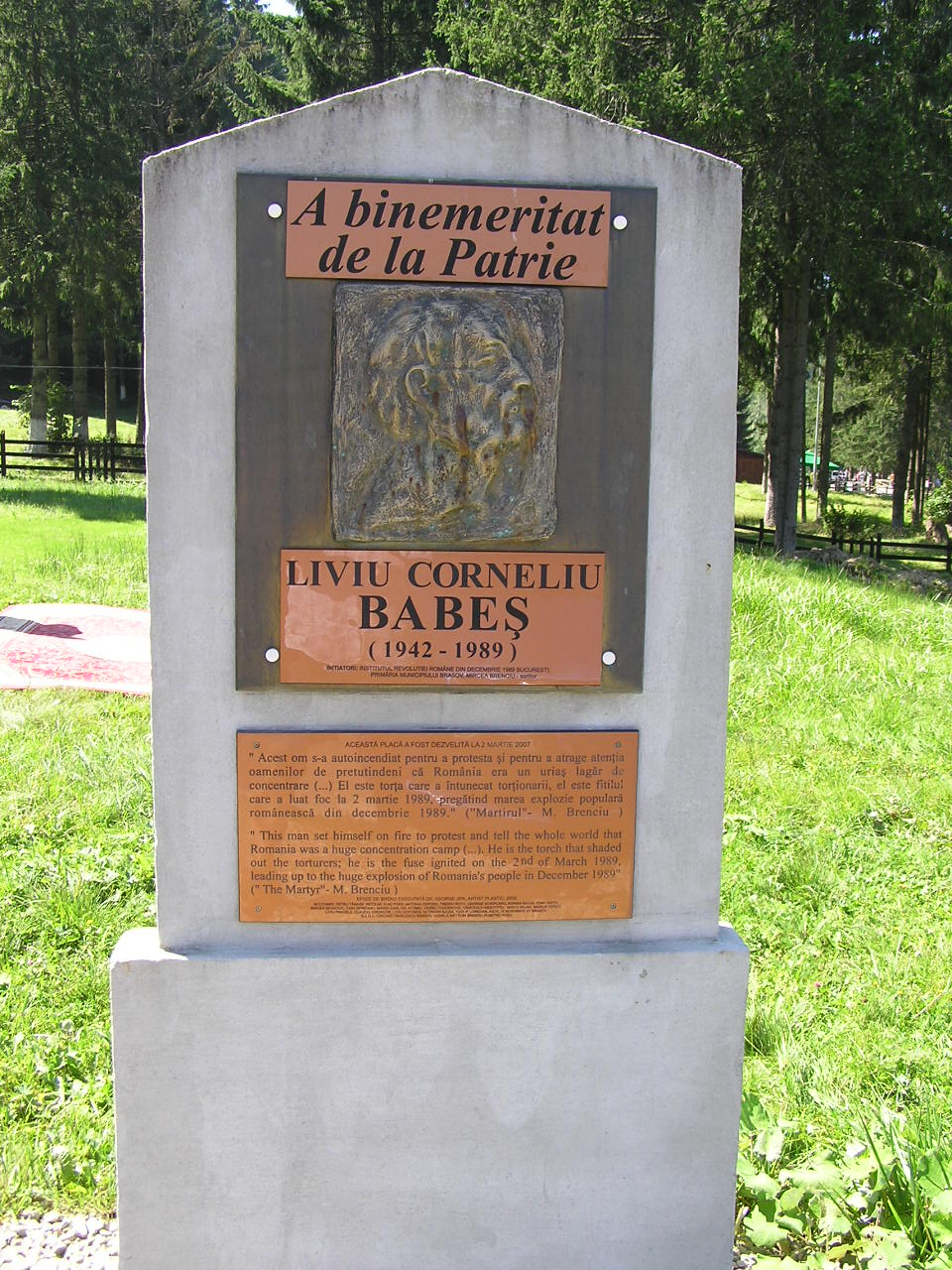 The memorial stone of martyr Liviu Cornel Babeş